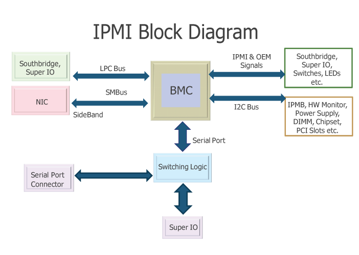 IPMI Block Diagram